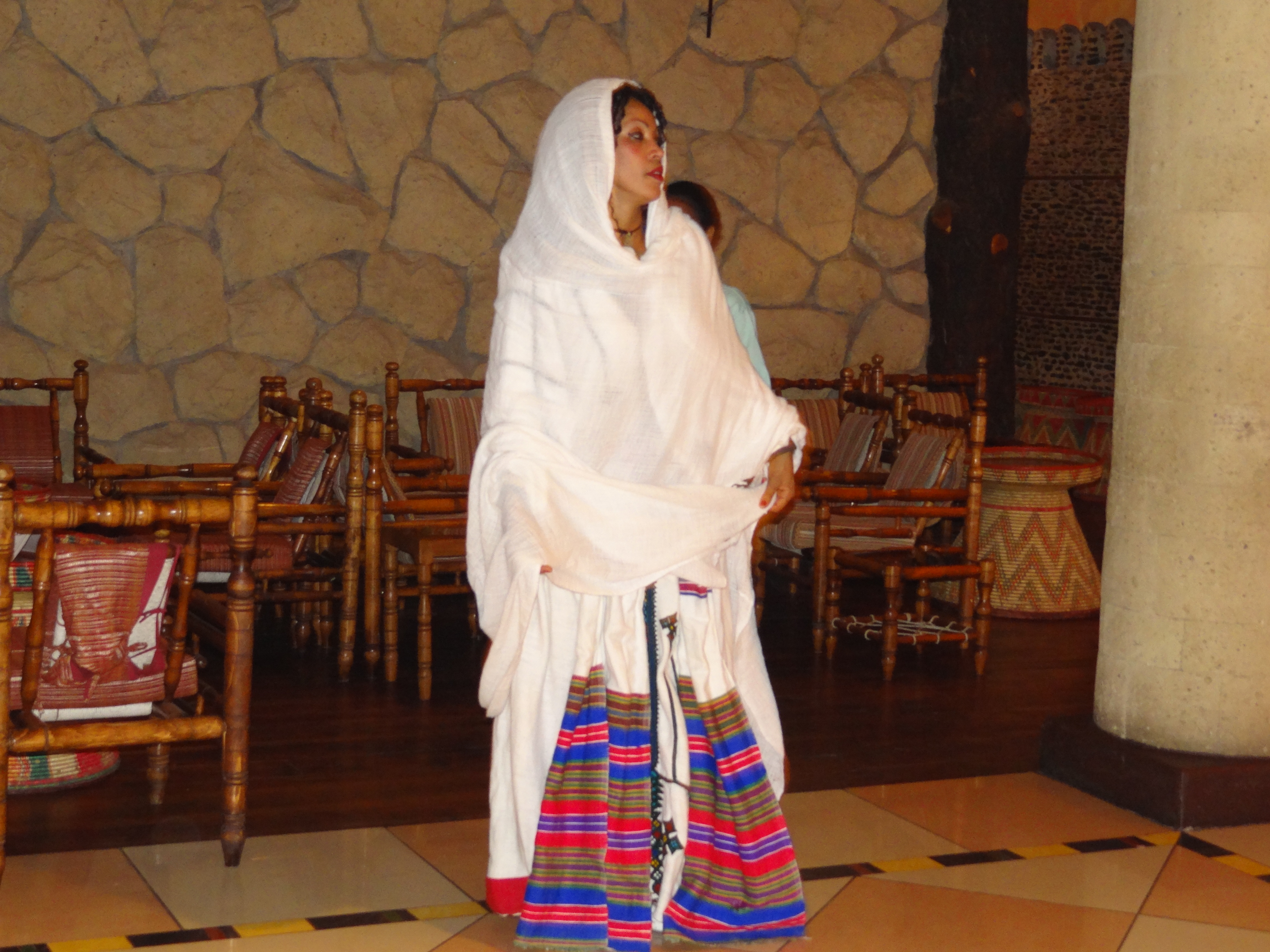 A Habesha woman in traditional attire performing a cultural dance.